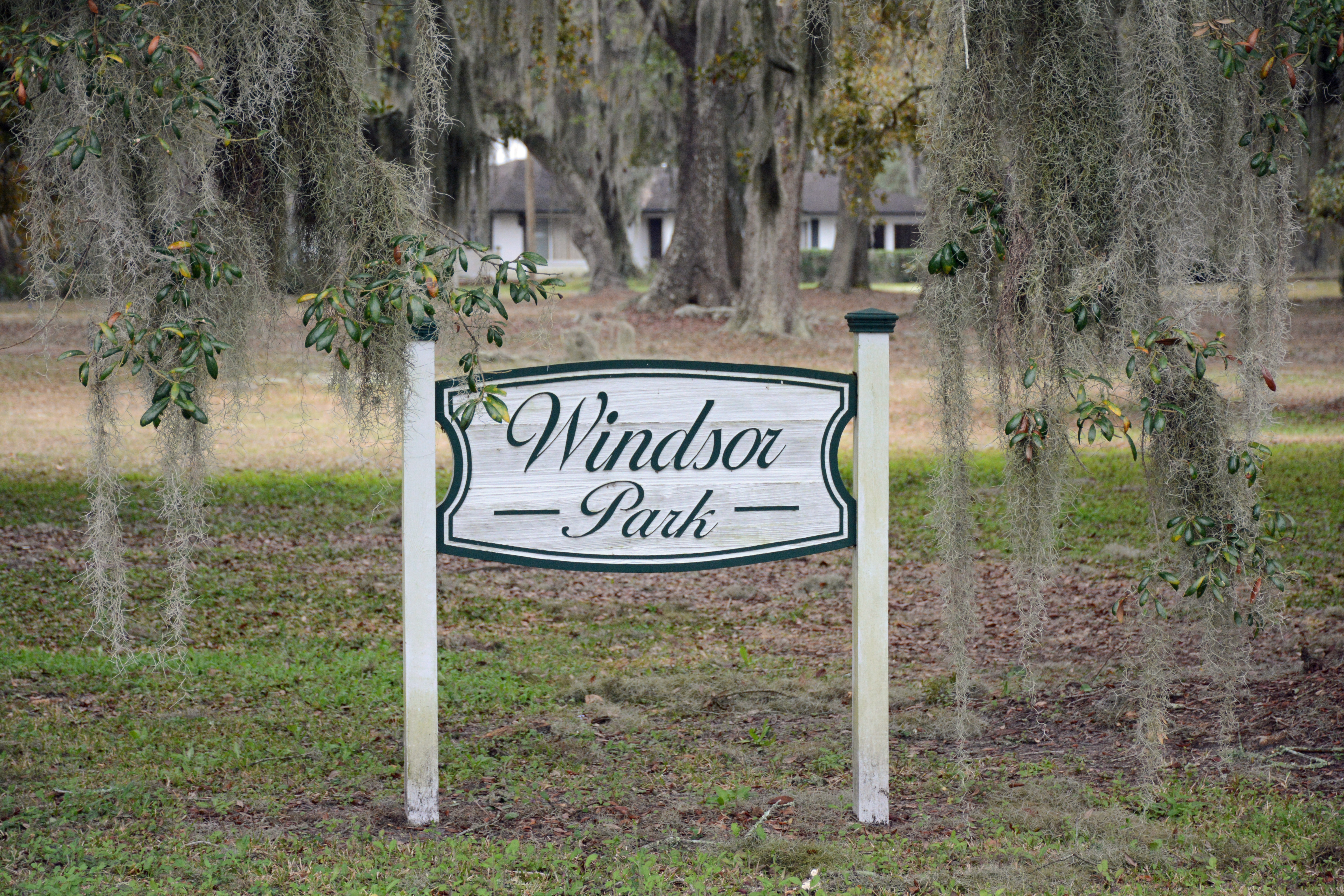 Sign at Windsor Park in Brunswick, Georgia, USA. The area is on the National Register of Historical Places.